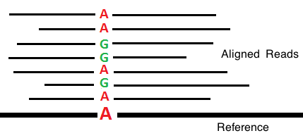 Image which visually depicts how aligned NGS read data against a reference can be used to call SNVs. In this picture a possible heterozygous variant is shown, with some reads containing the nucleotide G and others A, against the reference allele A.